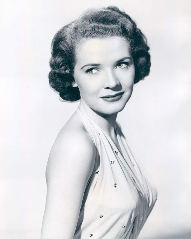 Publicity photo of Polly Bergen in 1953